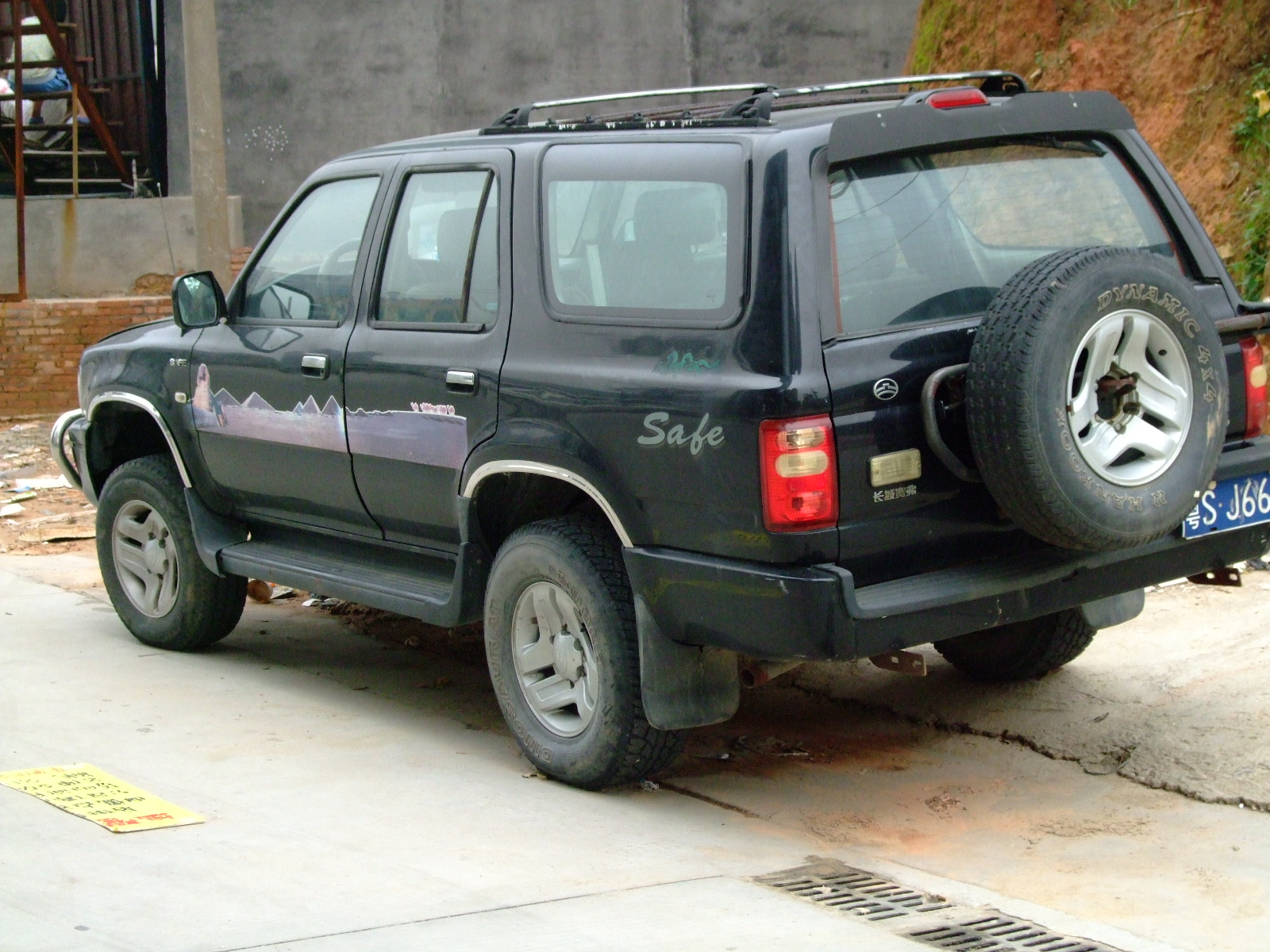 Great Wall Motors Safe [Chinese SUV] looks too much like a Toyota 4Runner